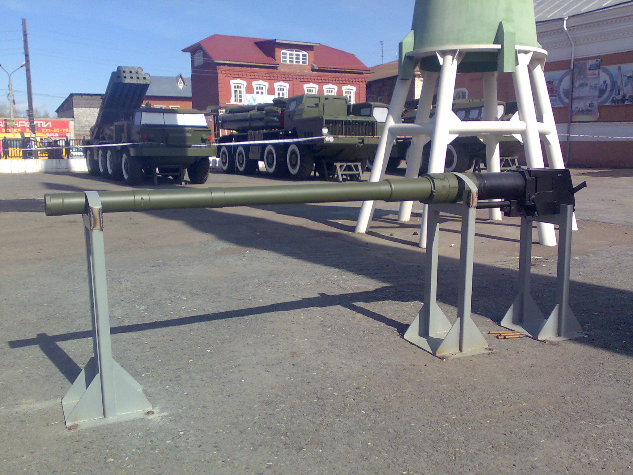 100-mm 2A70 gun. Motovilikha Plants museum in Perm. Russia.